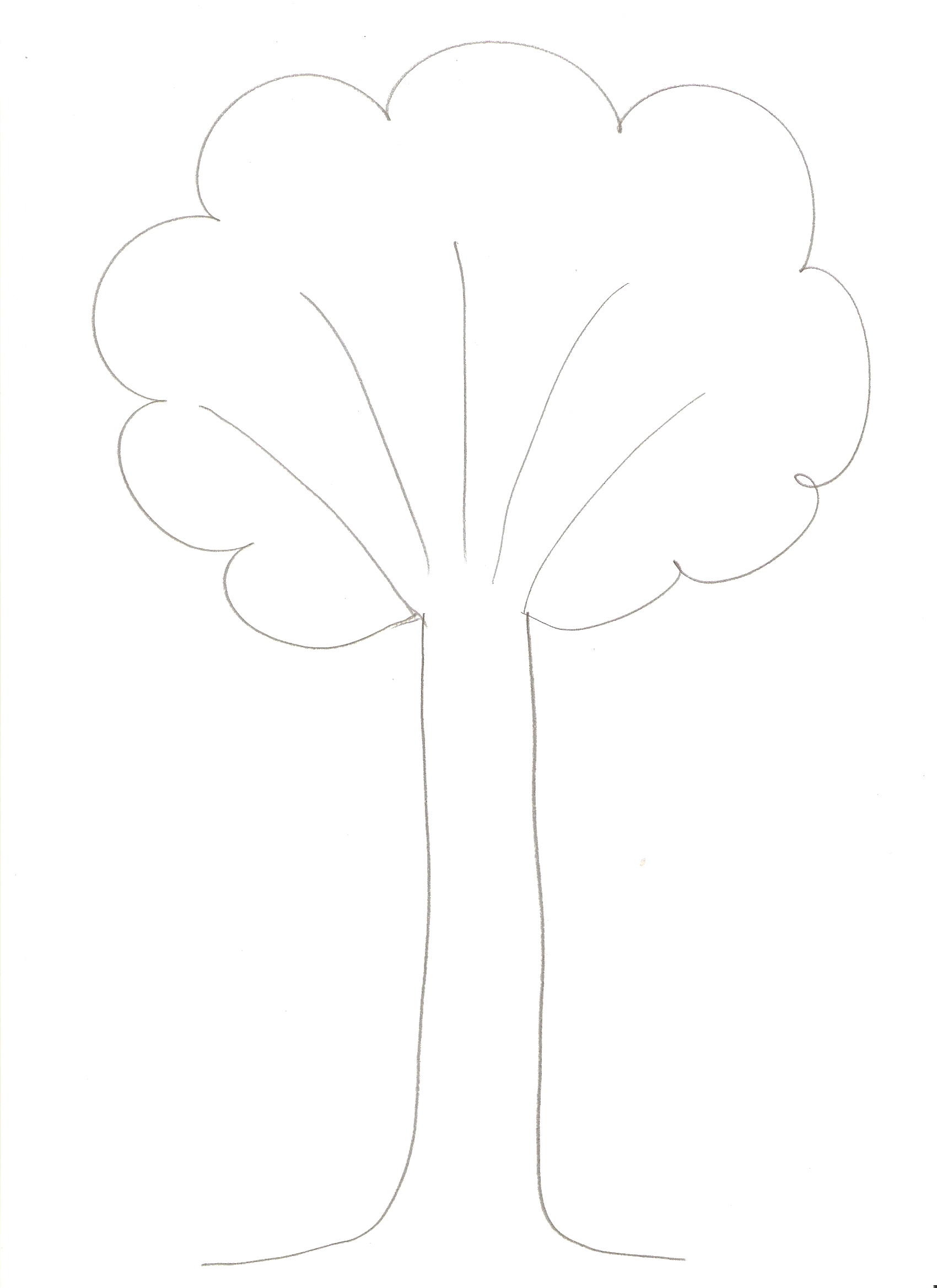 A tree - illustration for House-Tree-Person Test